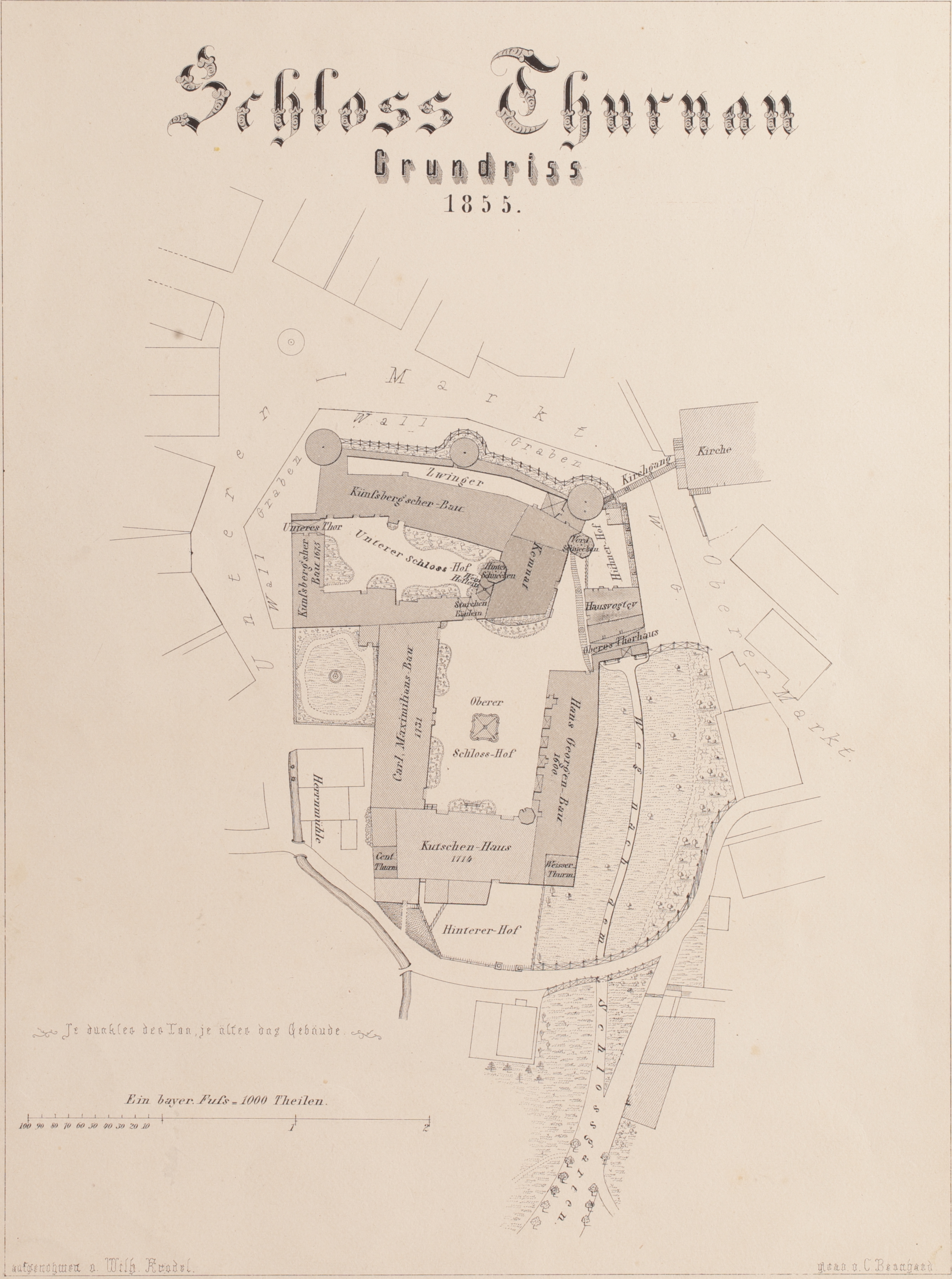 Carl August Lebschée, Plan of Thurnau Castle, 1854